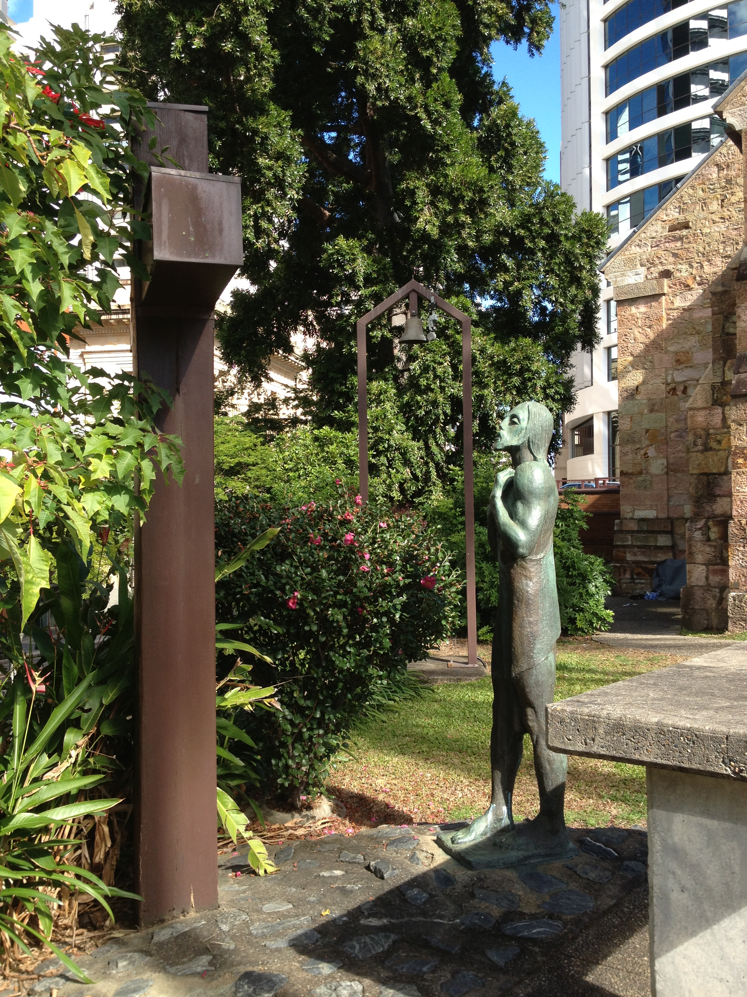 Sculpture Christ Accepting His Cross by Andor Mészáros (1962), All Saints Anglican Church, Brisbane, 06.2013